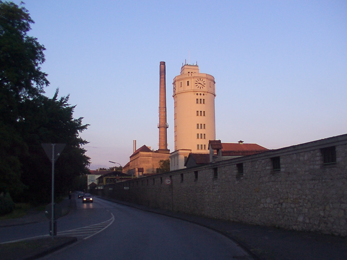 Bielefeld: Windelturm in Windelsbleiche, in the sunset light